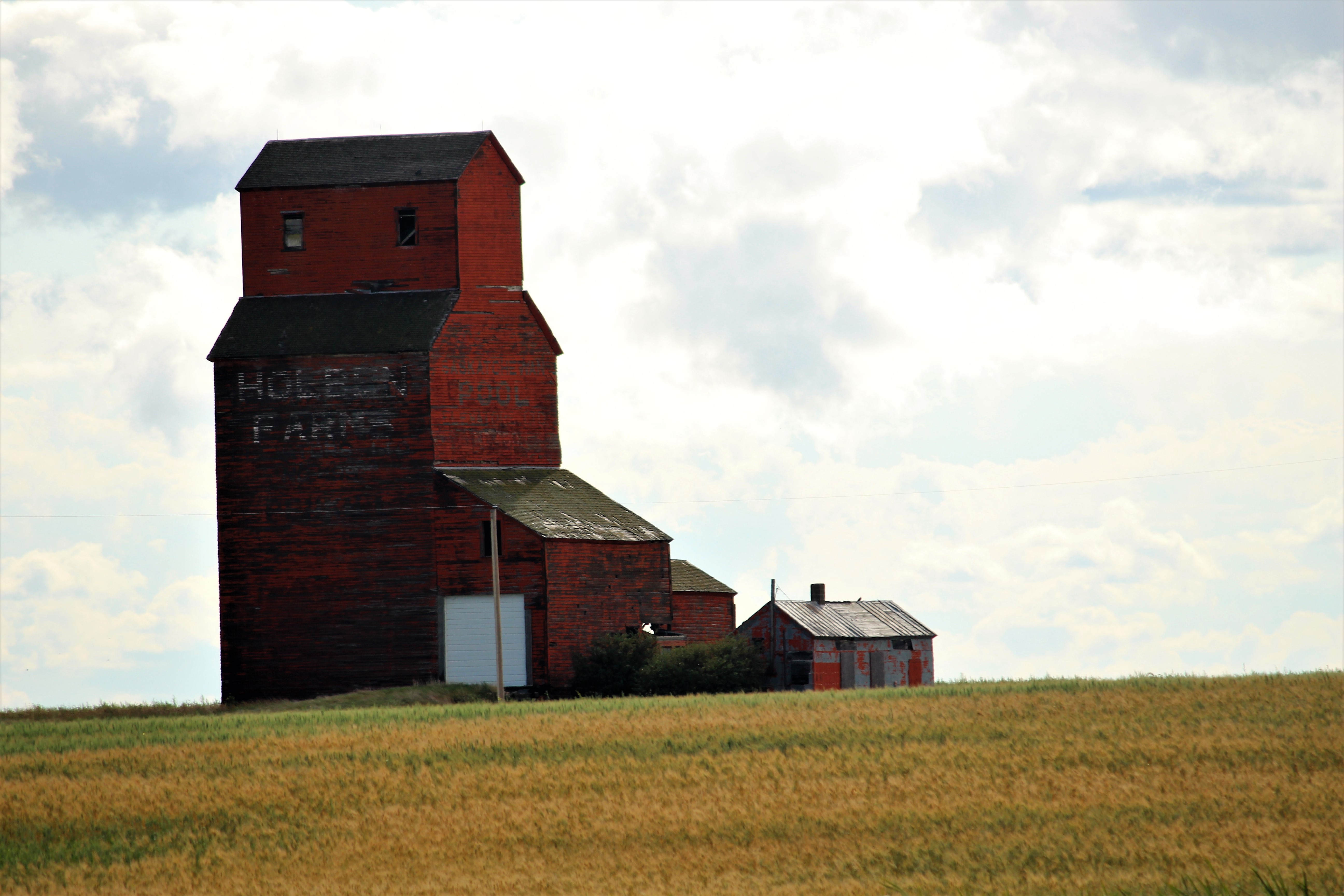 Most of what is left of Penkill, Saskatchewan, Canada. A grain elevator and a couple houses.